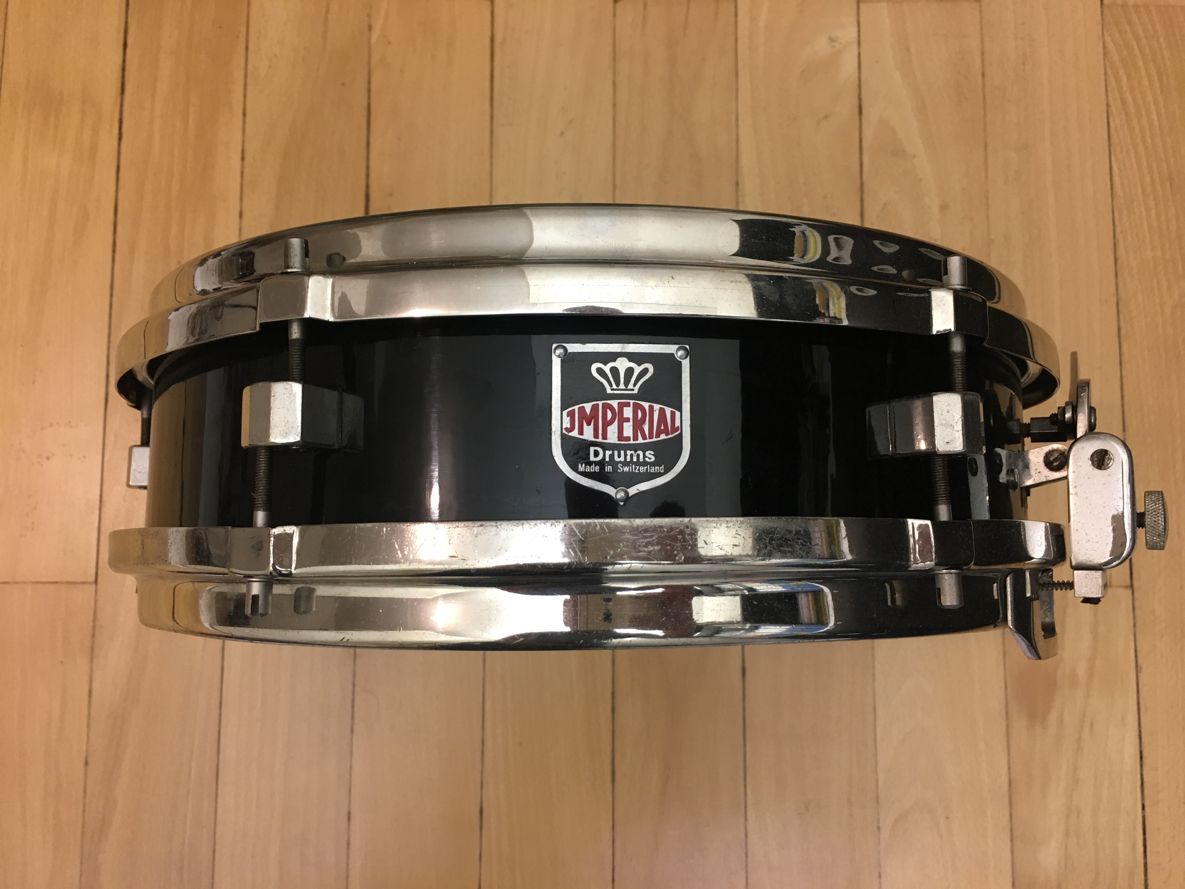 A black piccolo snare made by Imperial Drums.